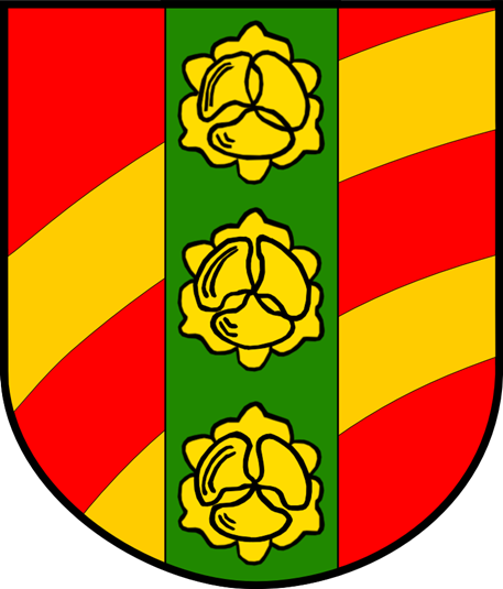 Coat of arms of the district of Glatz.